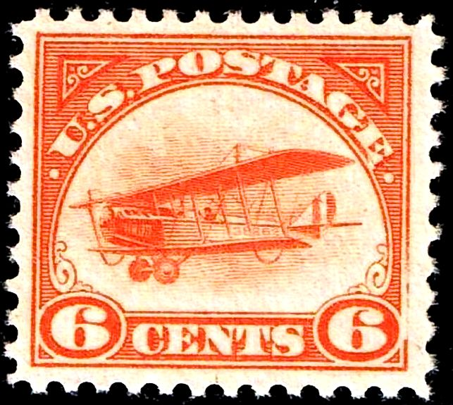 Airmail2_1918_Issue-6c.jpg